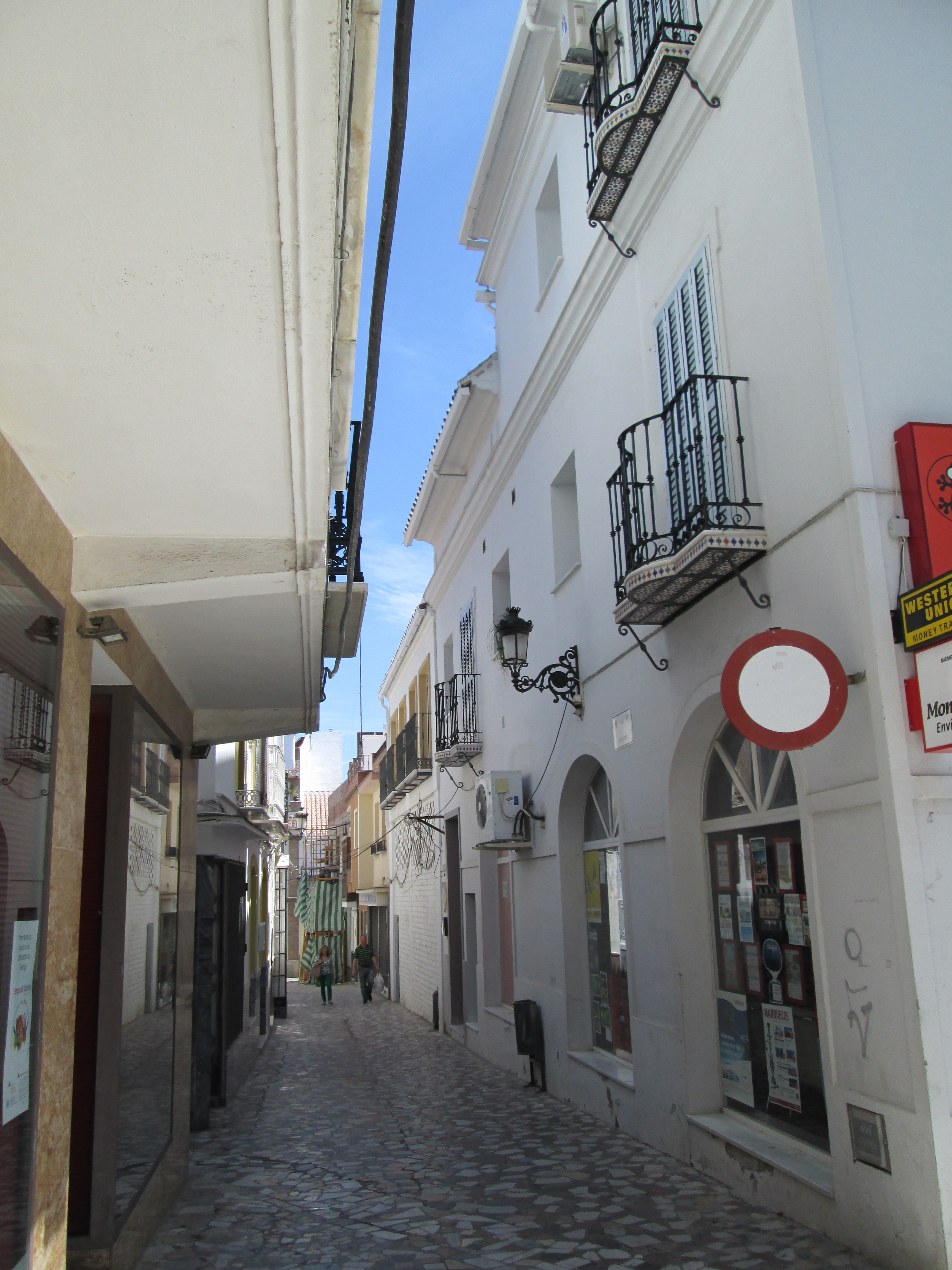 Coín, Sp